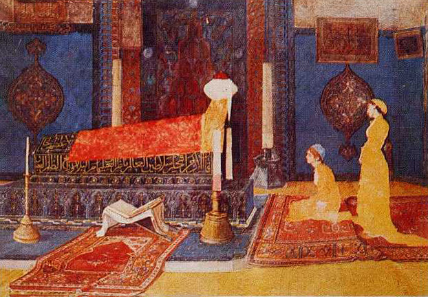 Two Young Girls Visiting A Shrine by Osman Hamdi Bey (1845-1810)